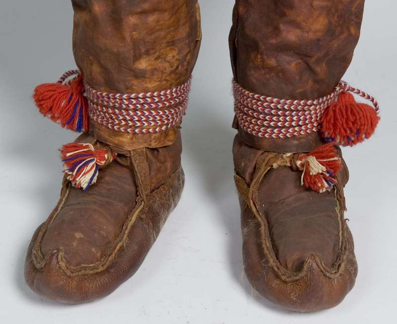 Sami summer shoes worn with traditional ribbons and leather trousers.